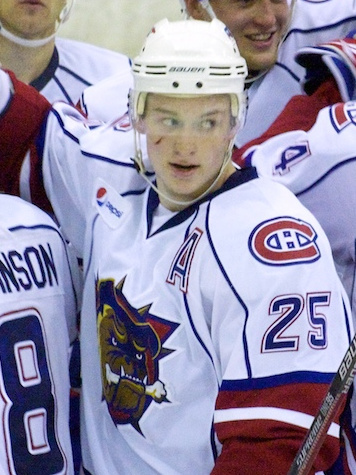 Hamilton Bulldogs' forward Ryan White #25 in a game againt the Toronto Marlies